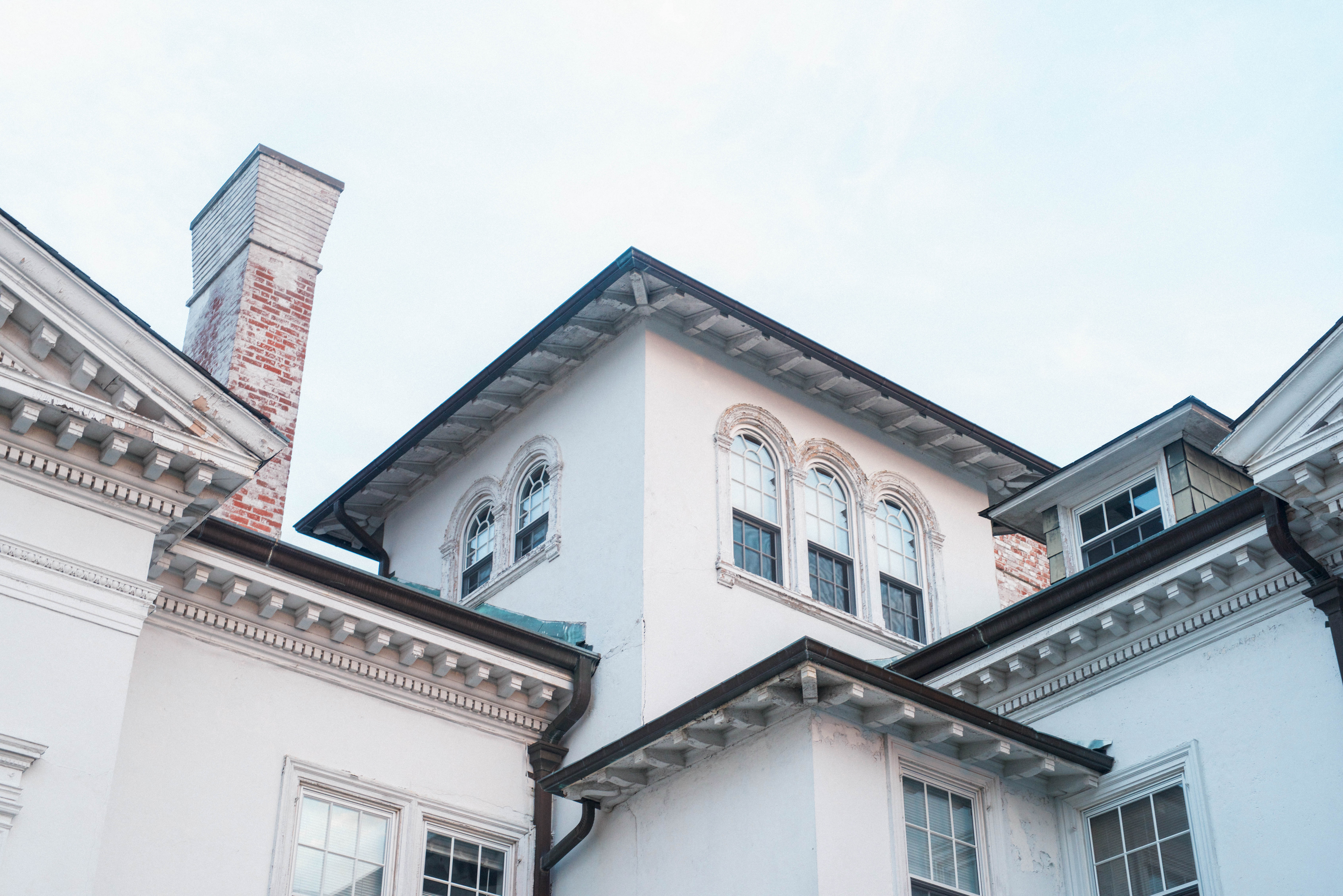 Albertus Magnus College, view from the back of the building.